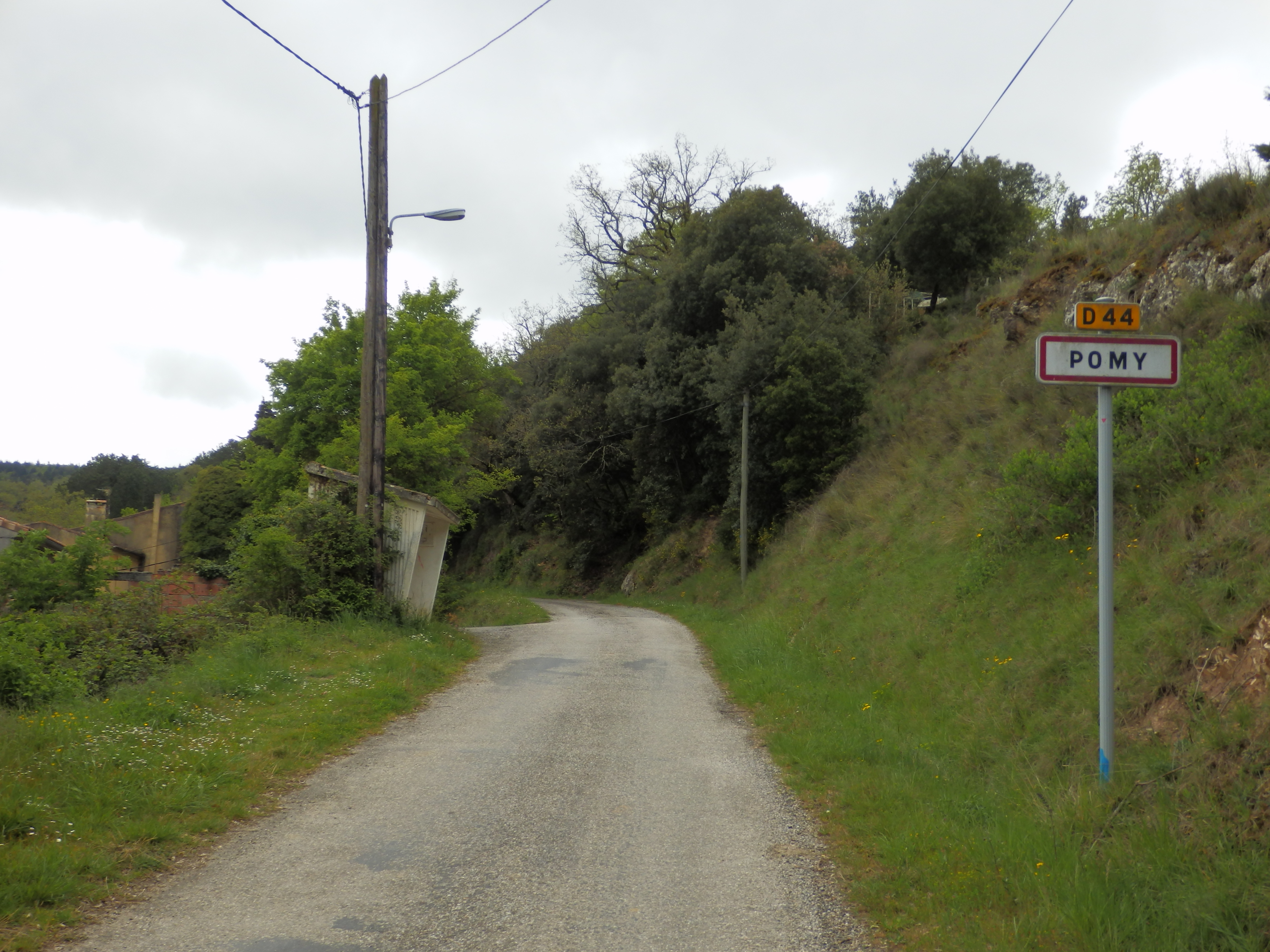 D44 in Pomy, Aude, France